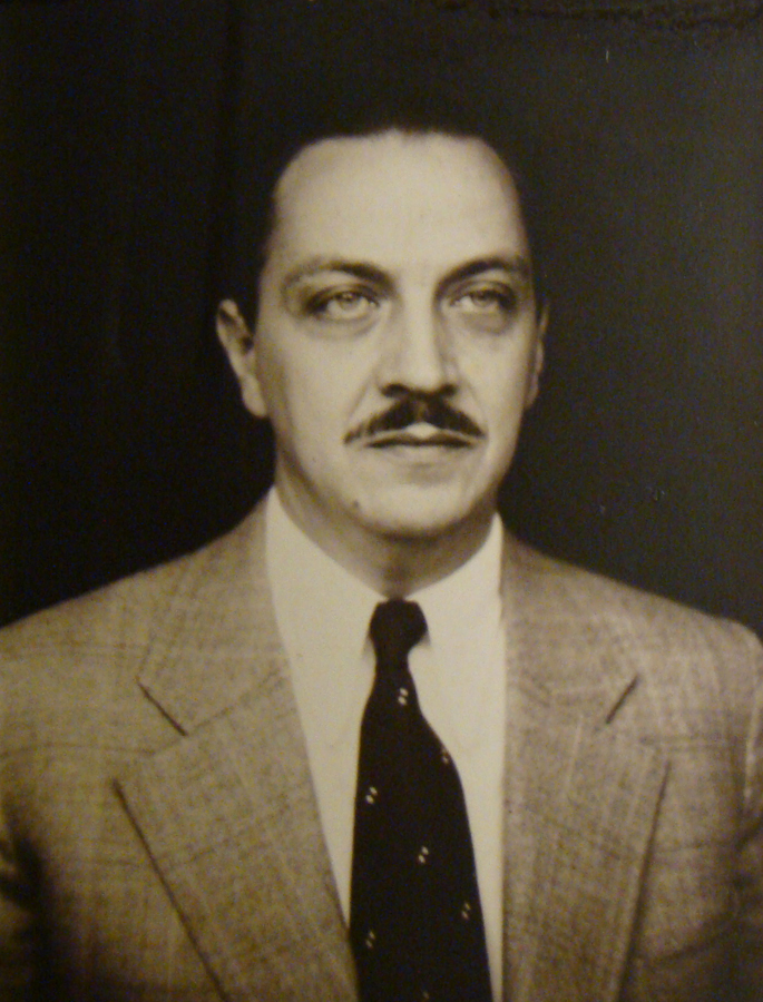 Architect and urbanist Attilio Corrêa Lima. Urbanist of Goiânia and architect of the hidro airplanes station of the Santos Dummont Airport in the Rio de janeiro